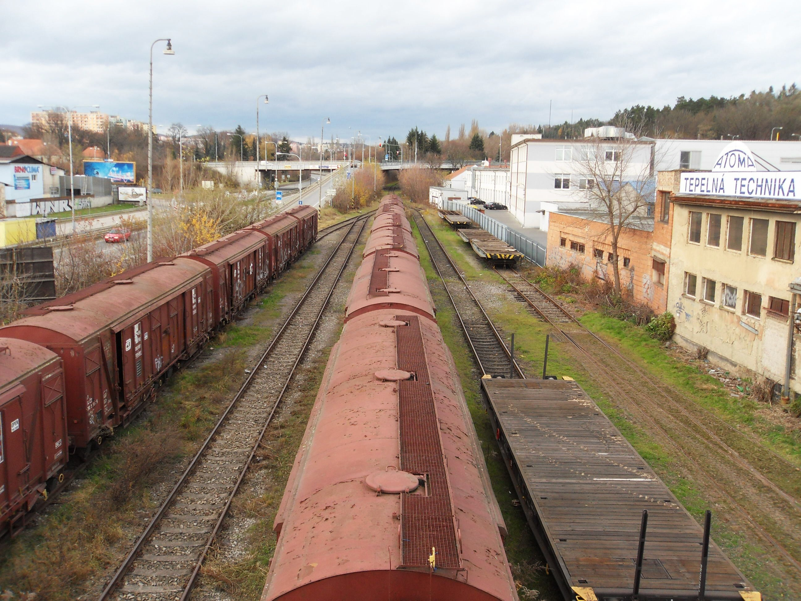 Former train station Brno-Královo Pole, Brno, Czech Republic